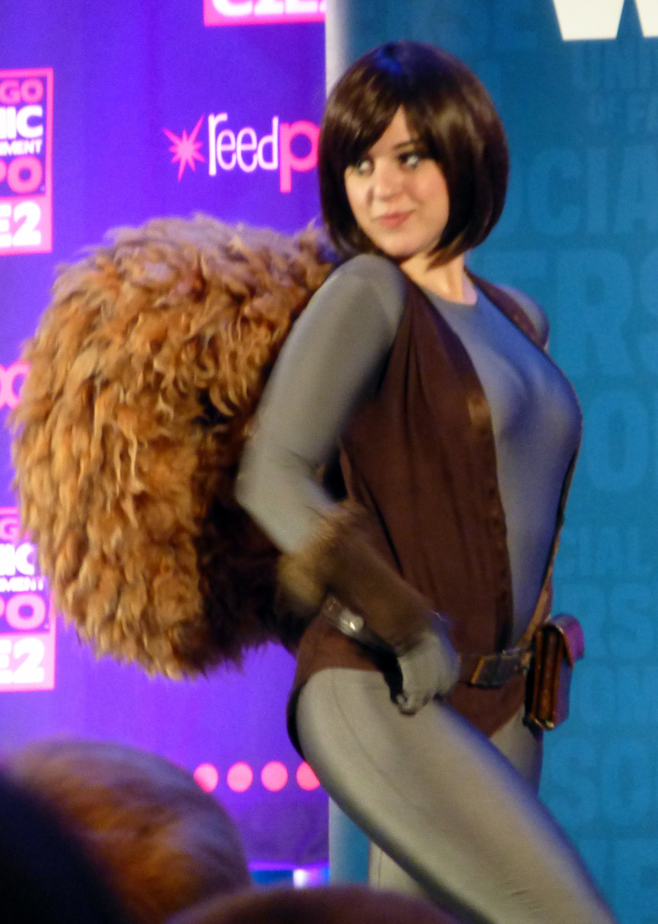 Bevan Sukowaty cosplaying as Squirrel Girl (from Marvel Comics) at the First Annual Chicago Comic & Entertainment Expo (C2E2) Crown Championships of Cosplay in 2014.